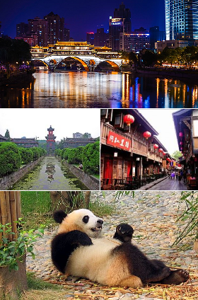 Montage of various Chengdu images, clockwise from top: Anshun Bridge on the River Jin; Jinli Street near Wuhou Temple; Chengdu Research Base of Giant Panda Breeding; and Huaxi campus of Sichuan University, West China Medical School clock tower